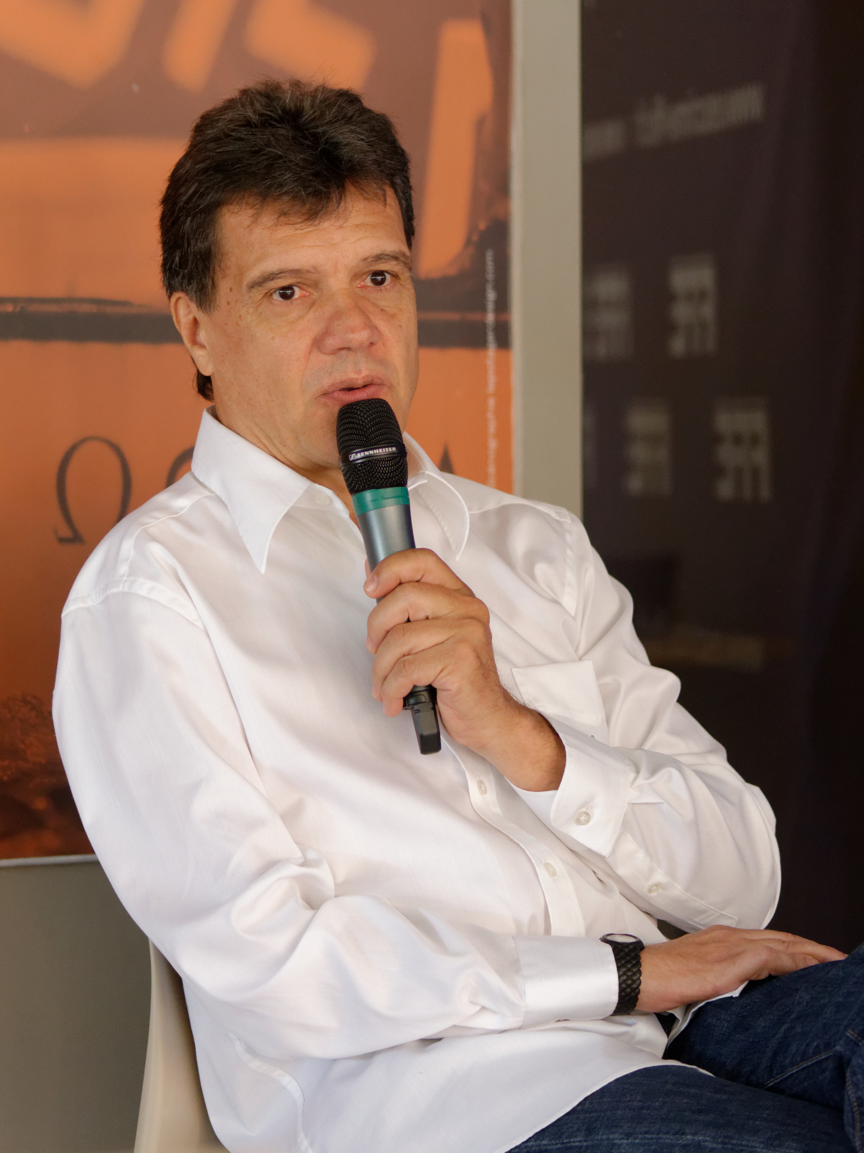 Fencing coach Michel Salesse at a press conference held by the French Fencing Federation on Thursday July 25th 2013 in Paris.